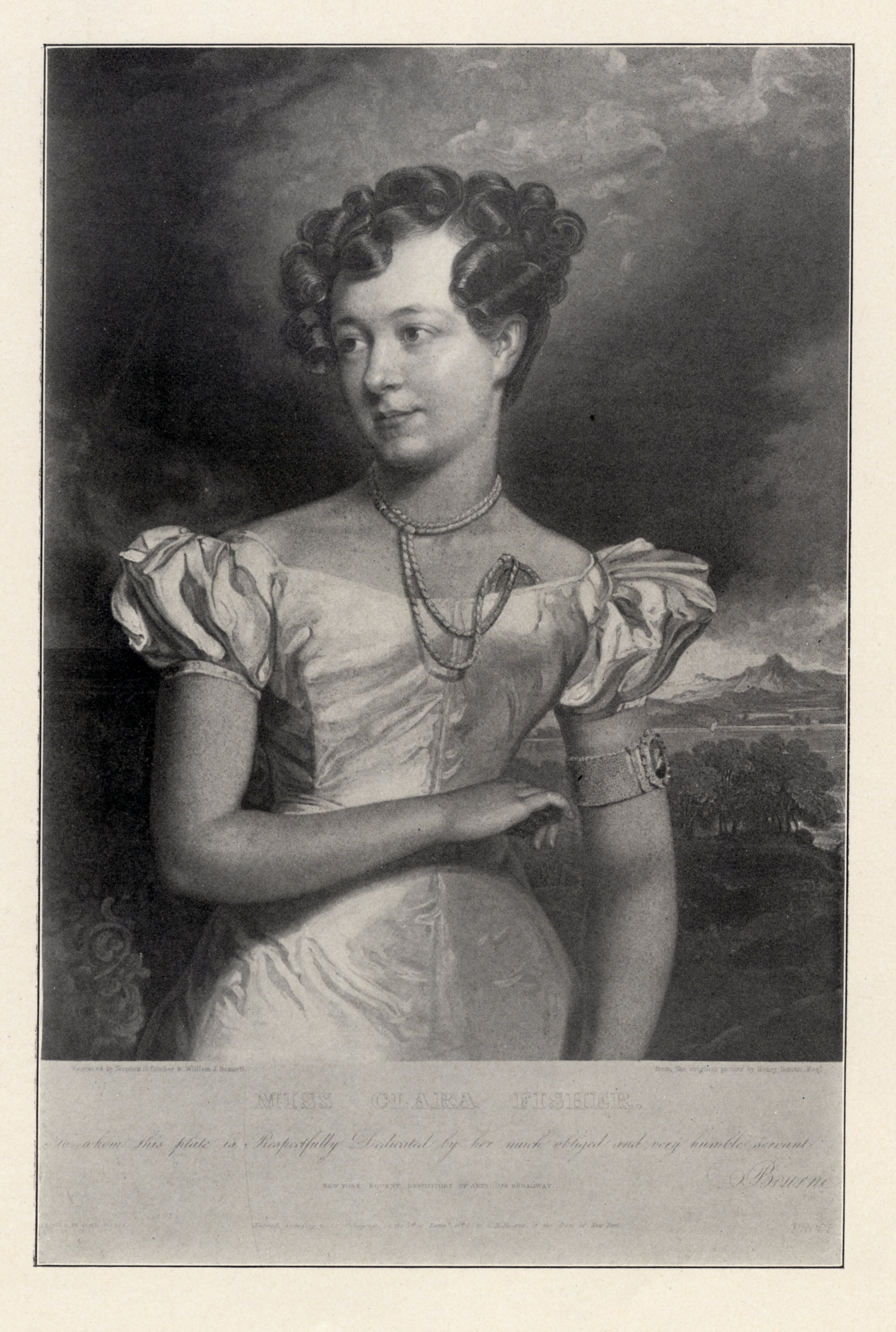 Clara Fisher (1811-1898) Actress